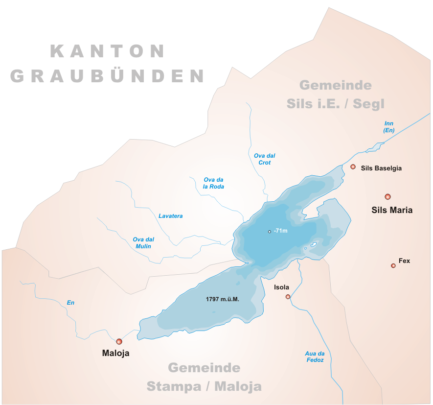 Map of Lake Sils, Switzerland